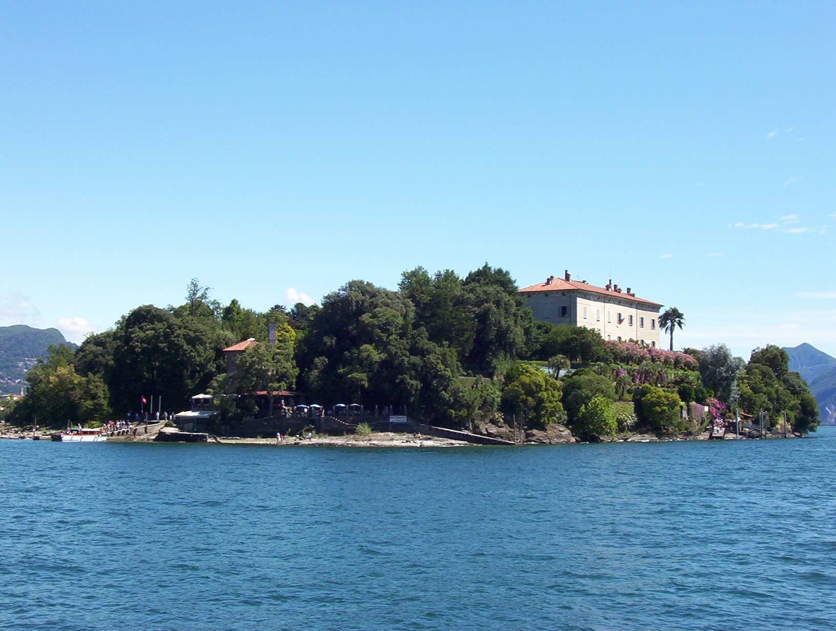 View of the Isola Madre in the Lago Maggiore.